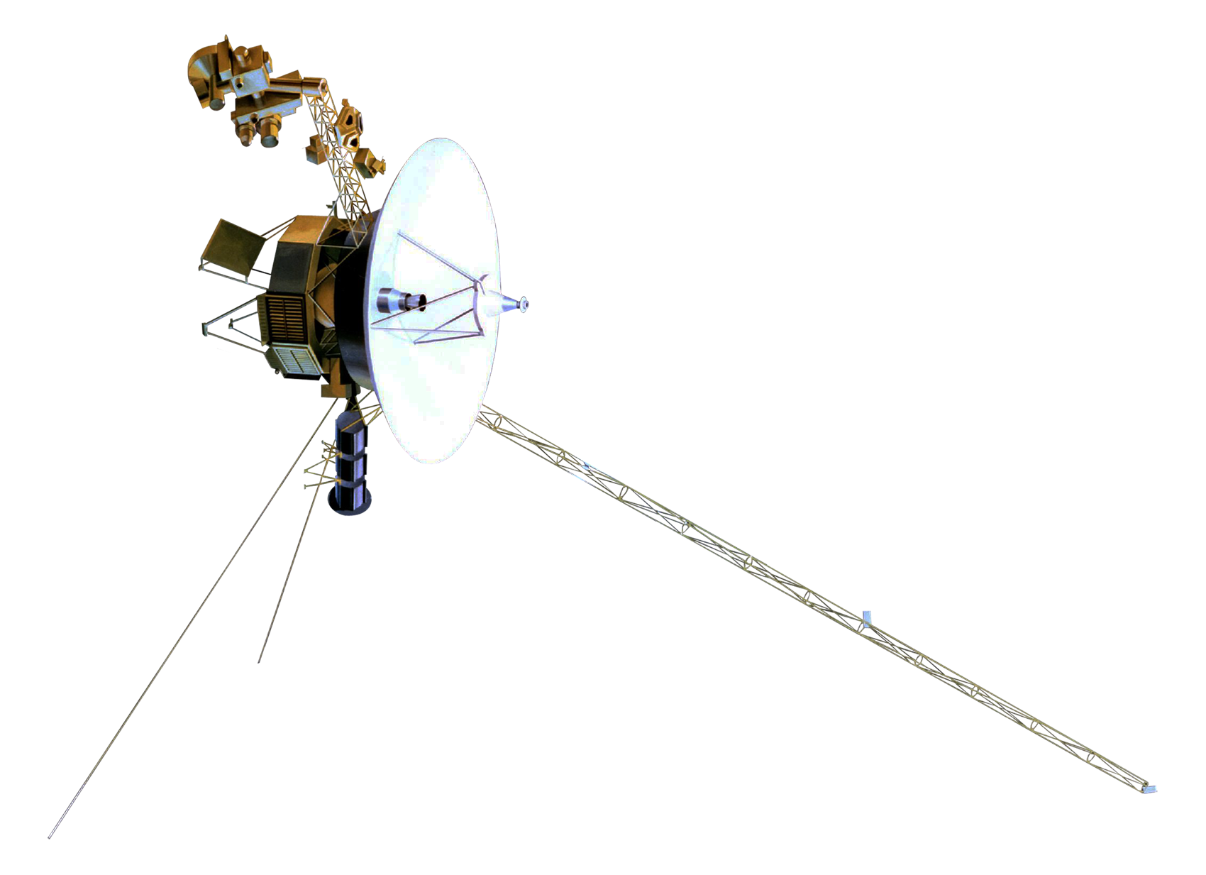 Artist's rendering, from NASA, of the design employed by the twin Voyager 1 and Voyager 2 spacecraft, in mission configuration. Sent into the outer solar system for the purpose of embarking on the "grand tour" of the Gas giants, Voyager 1 made successful reconnaissance flybys of the planet Jupiter and Saturn in 1979 and 1980. Voyager 2 also performed flybys of Jupiter and Saturn in 1979 and 1981, along with the very first, and so far only, visits of the planets Uranus and Neptune in 1986 and 1989.